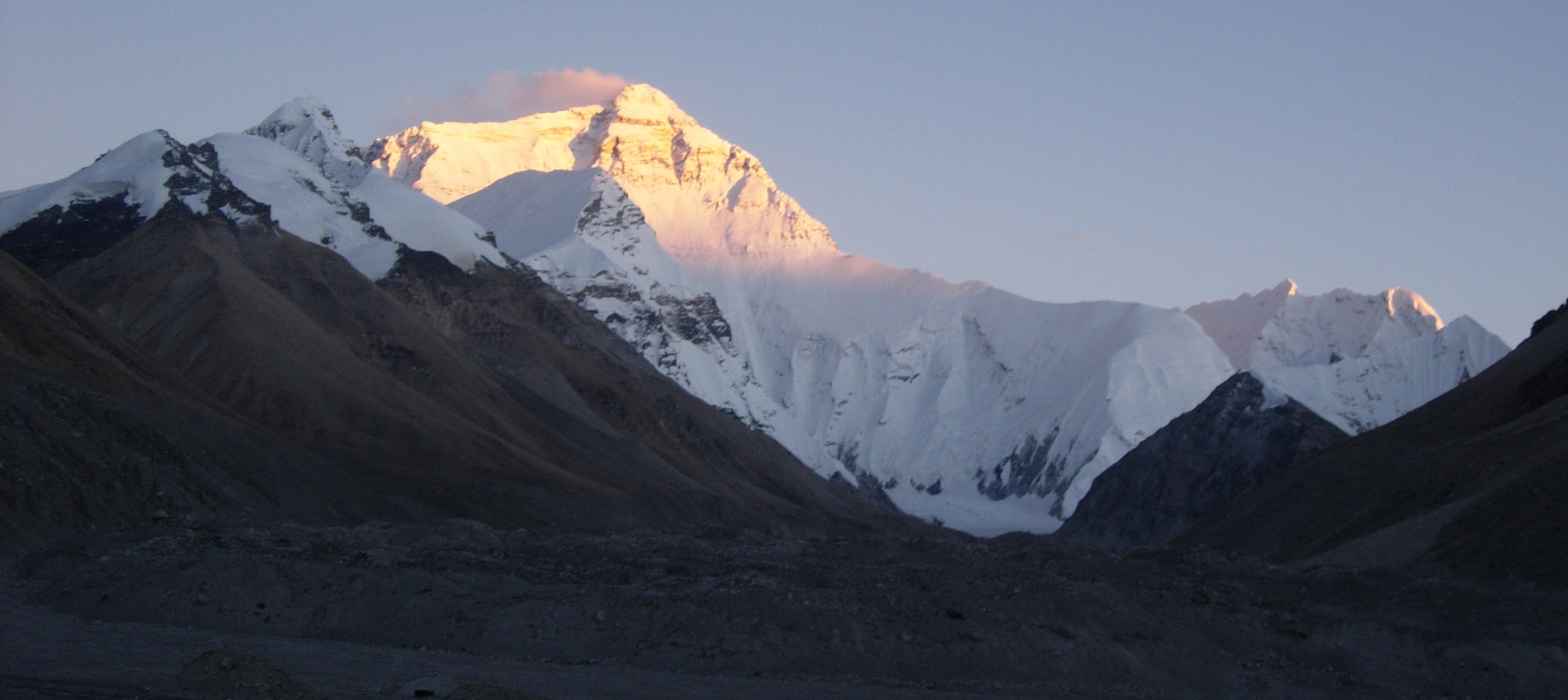 Everest Sunset